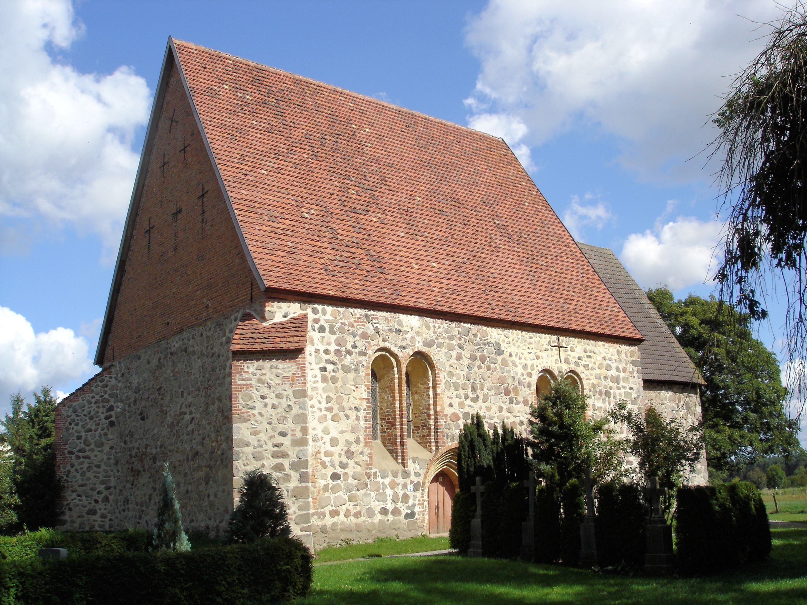 Church in Thelkow, Mecklenburg, Germany